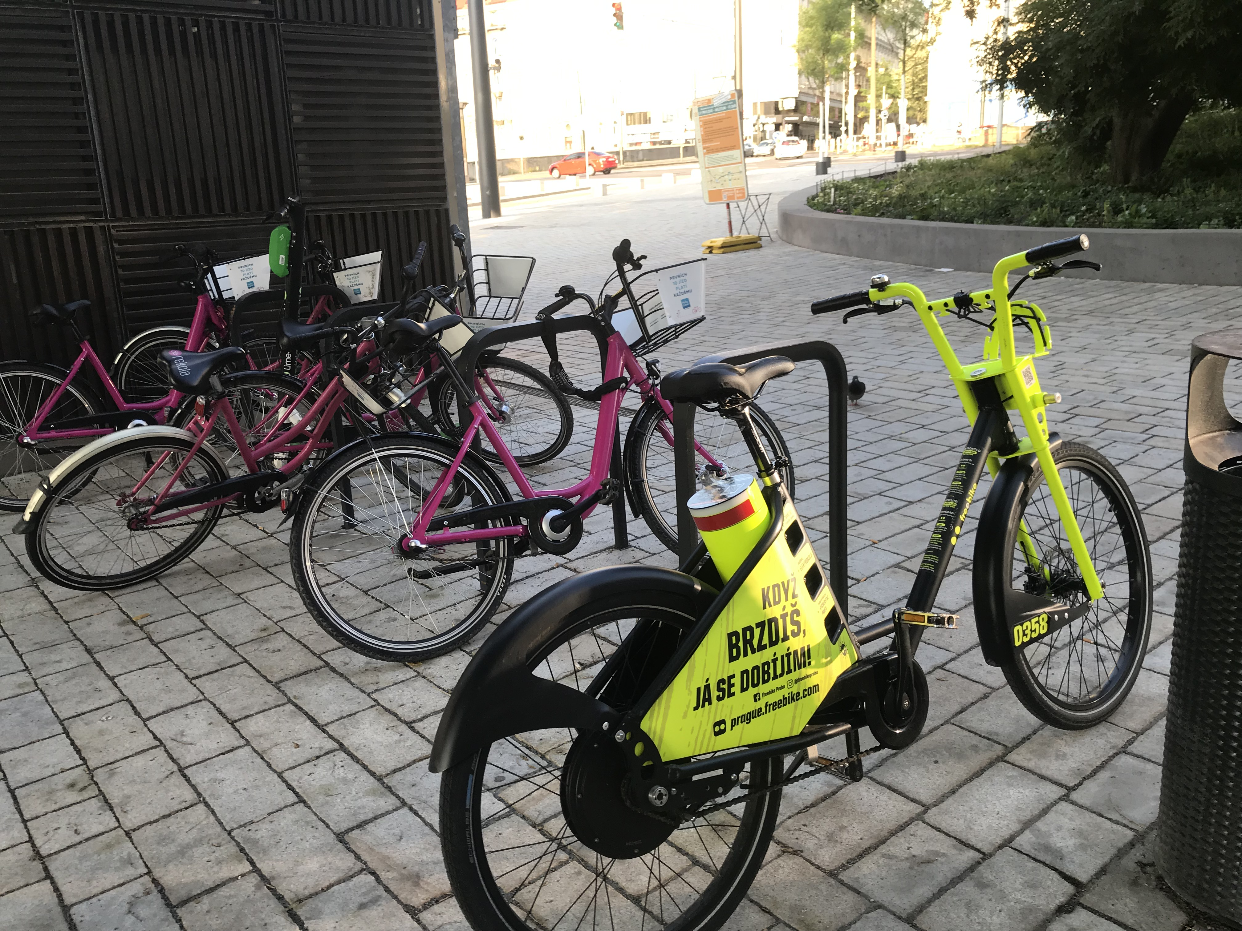 Bike stands in Prague next to Vinohradská street, National Museum and Muzeum metro station. Freebike, Rekola and Lime electric scooter can be seen.